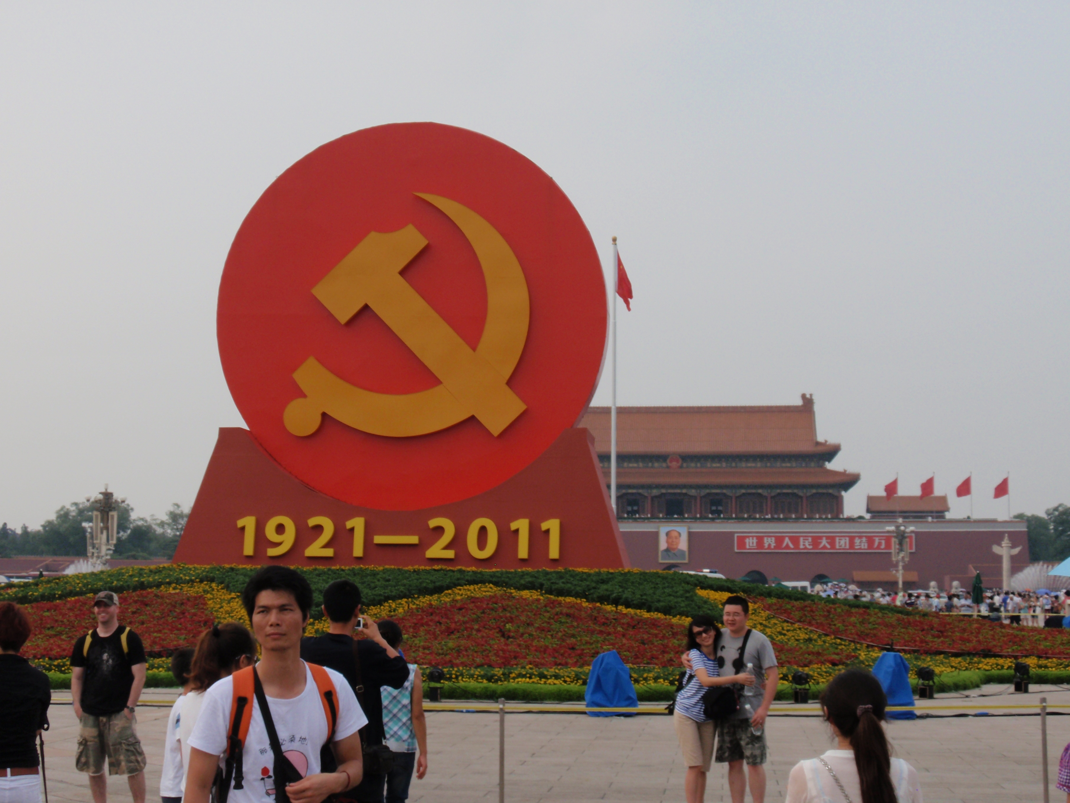 A large temporary monument in Tiananmen Square marking the 90th anniversary of the Chinese Communist Party. The Forbidden City can be seen in the background.